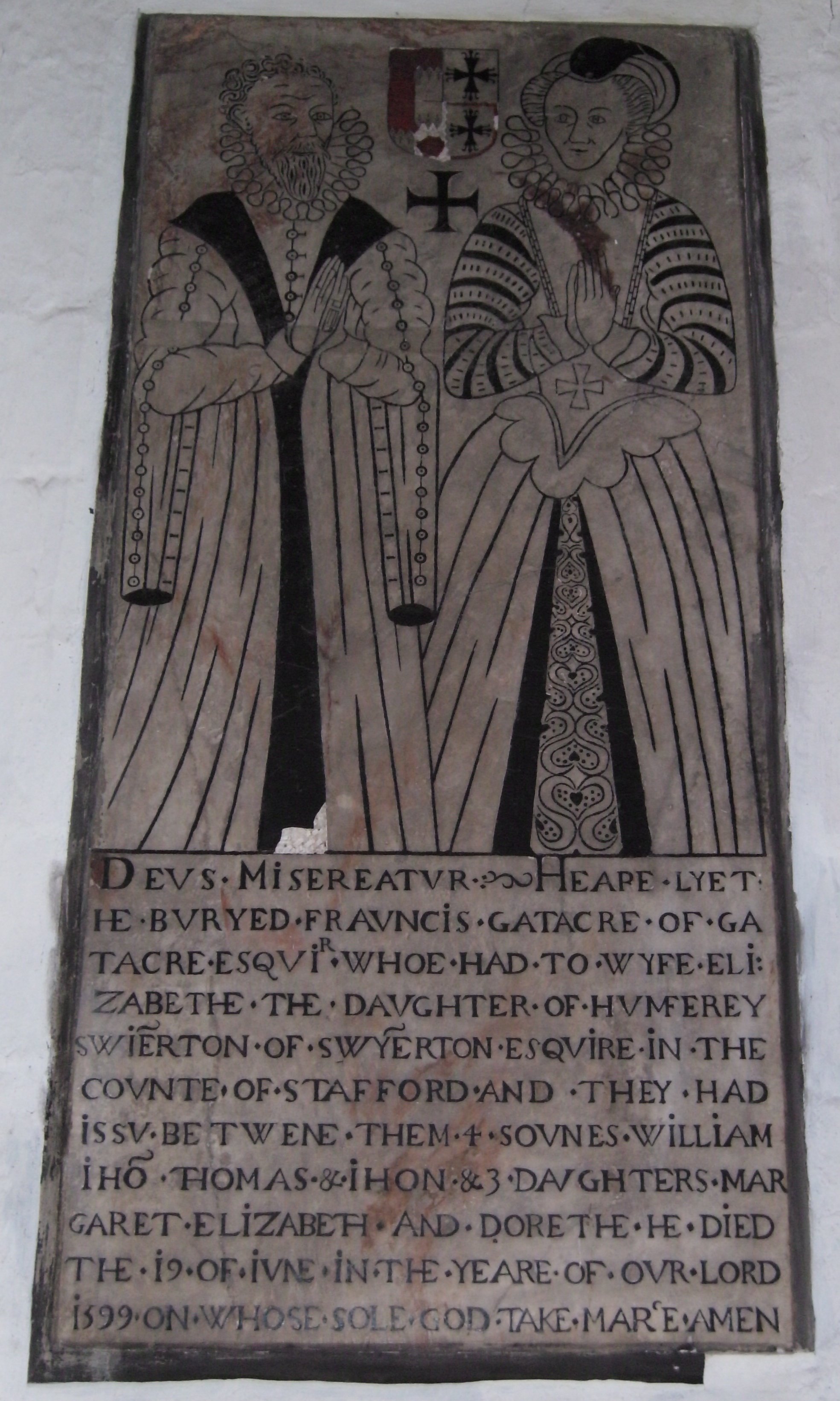 Tombstone of Francis Gatacre (died 1599) and Elizabeth Swynnerton, now mounted on wall of All Saints church, Claverley, Shropshire.